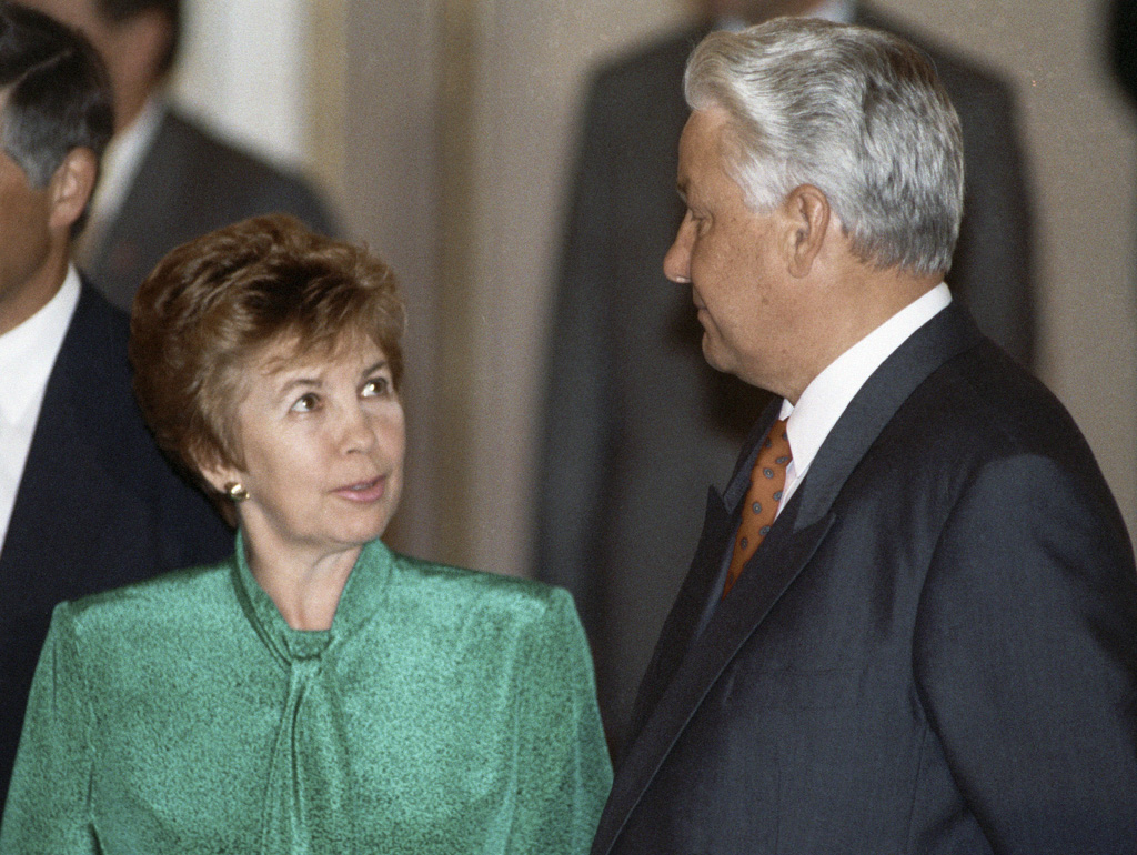 “Boris Yeltsin and Raisa Gorbachev”. President Boris Yeltsin of the R.S.F.S.R. (right) and Raisa Gorbachev (left) at official lunch in honor of U.S. President George Bush Sr. and Mrs. Bush.